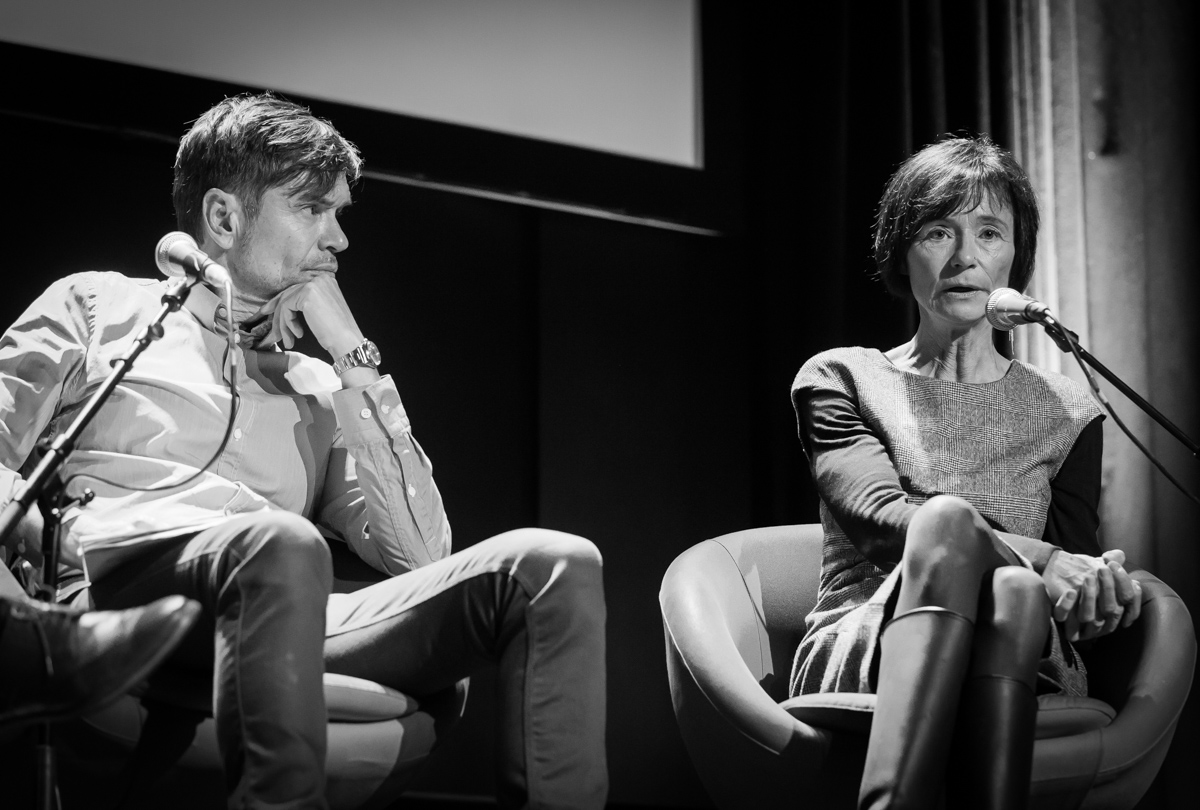 Kjetil Rolness and Hege Storhaug in a debate at Cosmopolite in Oslo in 2015.